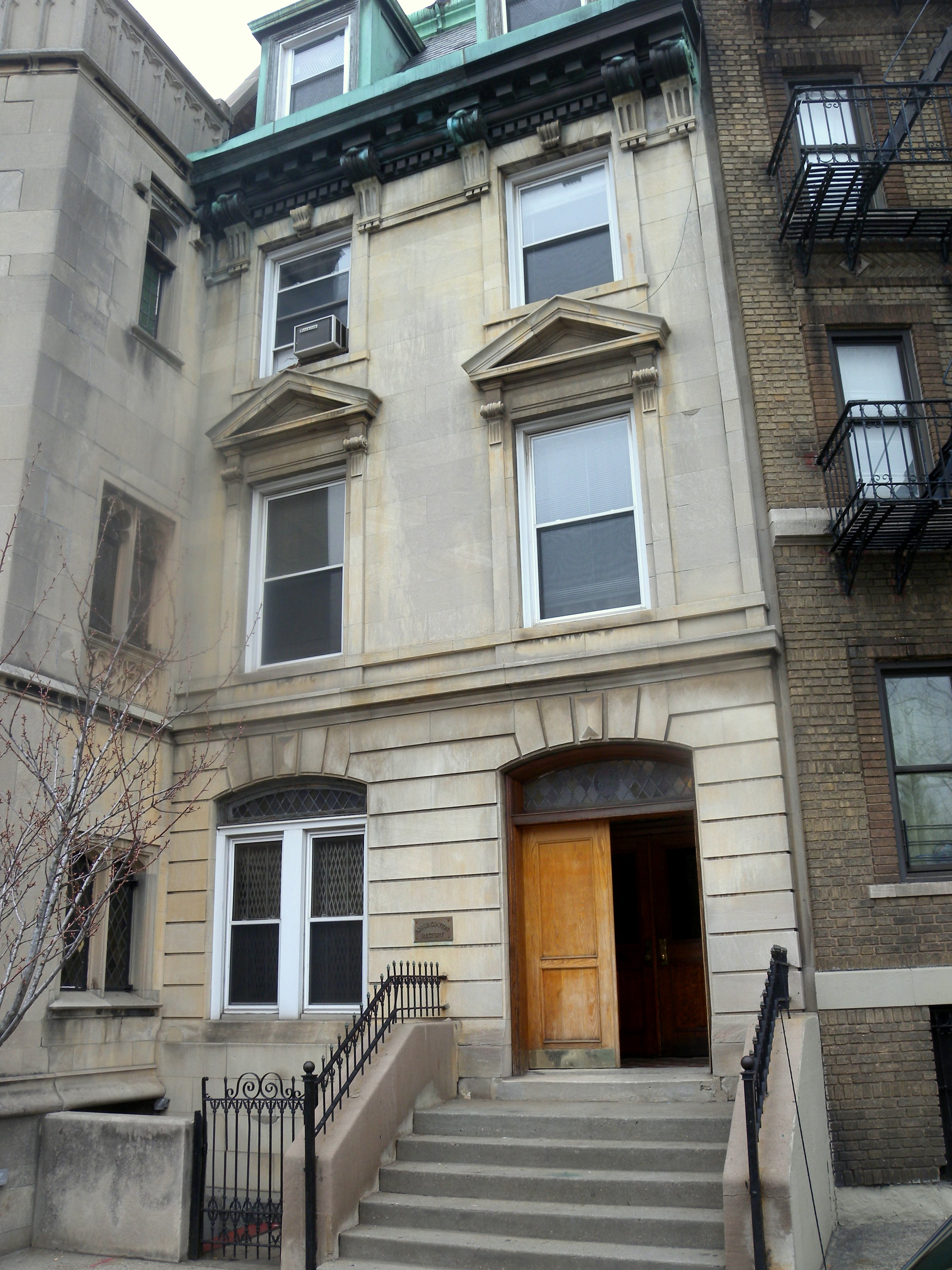 Looking west from Convent Avenue at Annunciation rectory on a cloudy day.